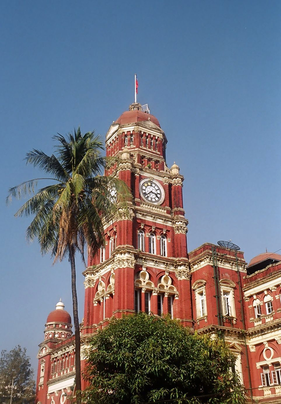 yeowatzup